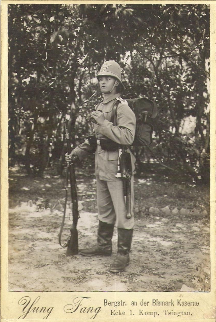 Soldier Wilhelm Hunstiger in Tsingtau Qingdao